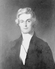 William Joseph Harper, (1826-1826), Biographical Directory of the United States Congress